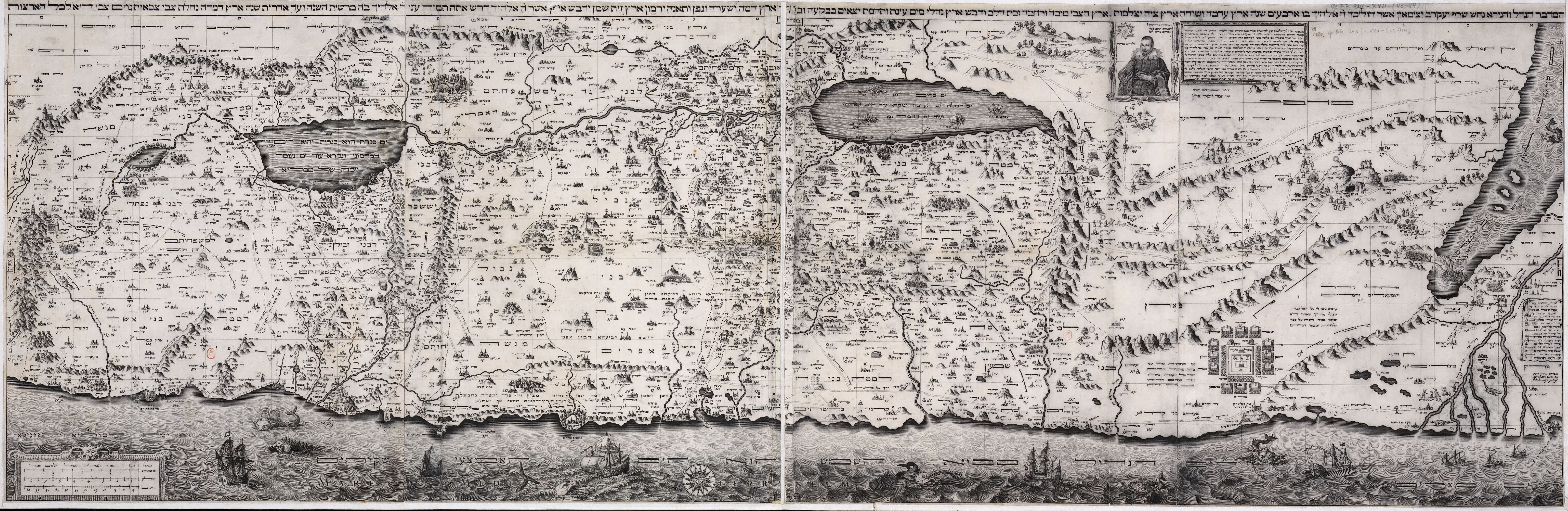 This is the first known map of the Holy Land in Hebrew, by Jacob ben Avraham, 1620/1621. It is a copy and translation of the 1590 map: File:Christian van Adrichem 1590 map Situs Terræ Promissionis SS bibliorum intelligentiam exacte aperiens.jpg The upper Hebrew caption on the map recites several Hebrew verses, the first one being a partial quote from Deuteronomy 8:15; the second verse being a partial quote from Deuteronomy 8:2; the third verse being a partial quote taken from Jeremiah 2:6; the fourth verse, where it mentions the "land of the gazelle," is an allusion to Ezekiel 20:6; the fifth verse is a partial quote taken from Exodus 3:8; the sixth verse is taken from Deuteronomy 8:7; the seventh verse from Deuteronomy 8:8; the eighth verse being from Deuteronomy 11:12; which verse, in turn, is followed by Jeremiah 3:19. In the framed colophon, in the first line it reads: ציור מצב ארצות כנען (A Drawing of the Situation of the Lands of Canaan)